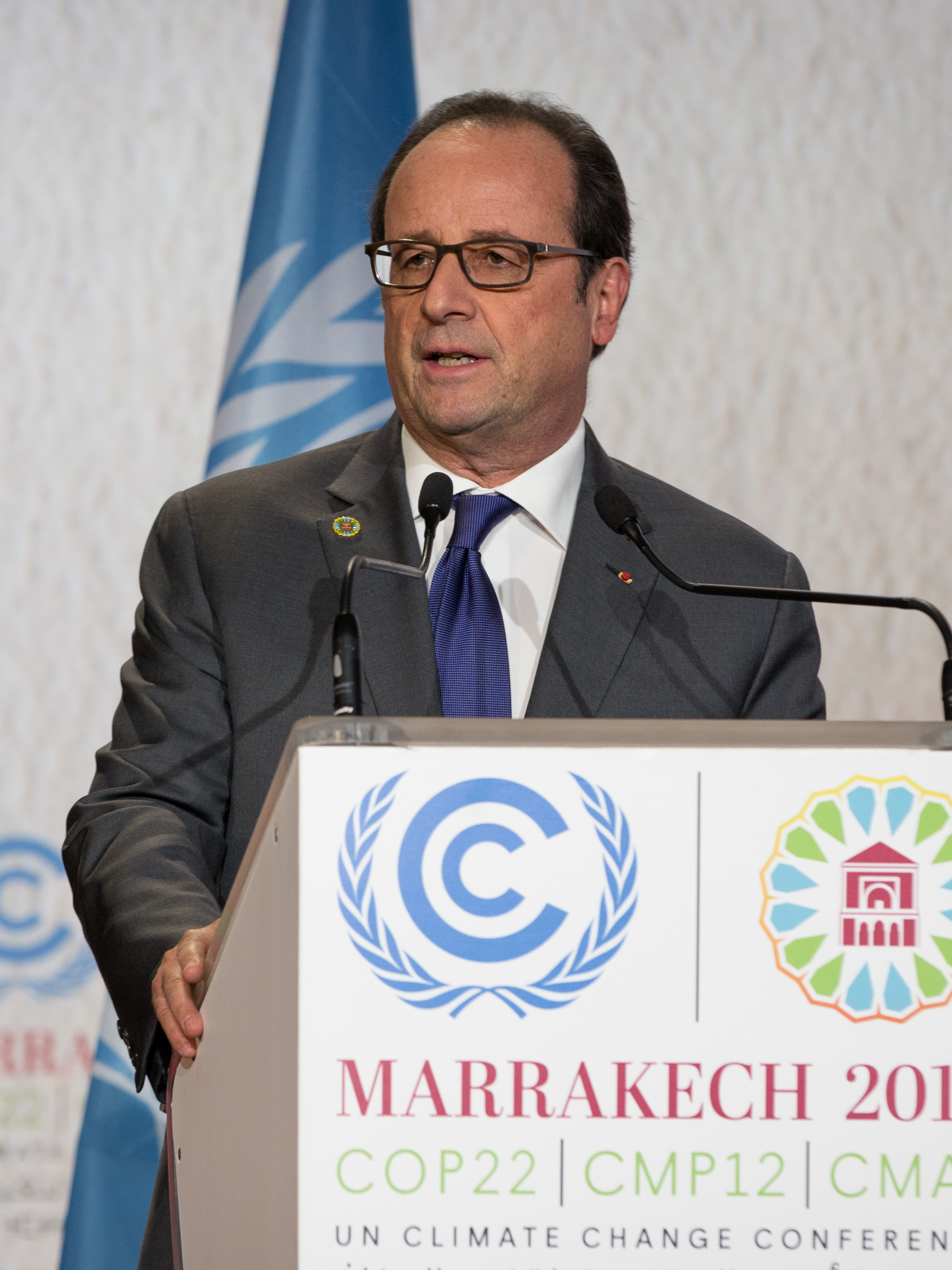 H.E. Mr. François Hollande, President of France